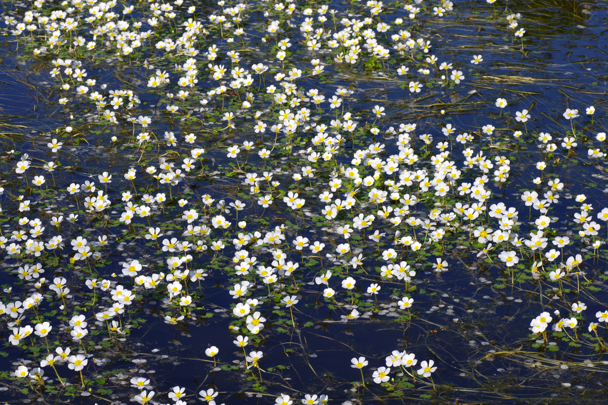 Aspect of flowering plants of Ranunculus peltatus (Family: Ranunculaceae).